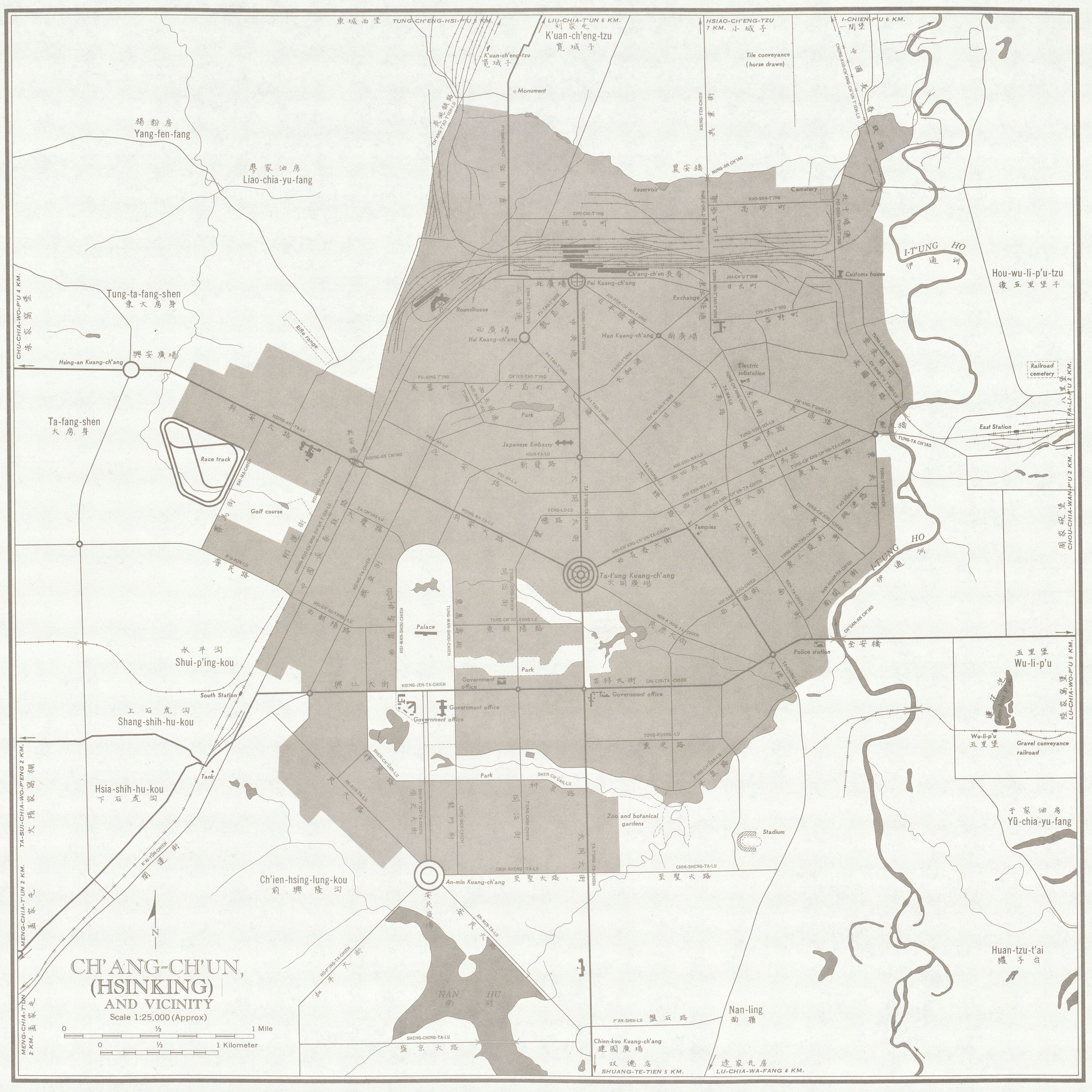 Manchuria AMS Topographic Maps